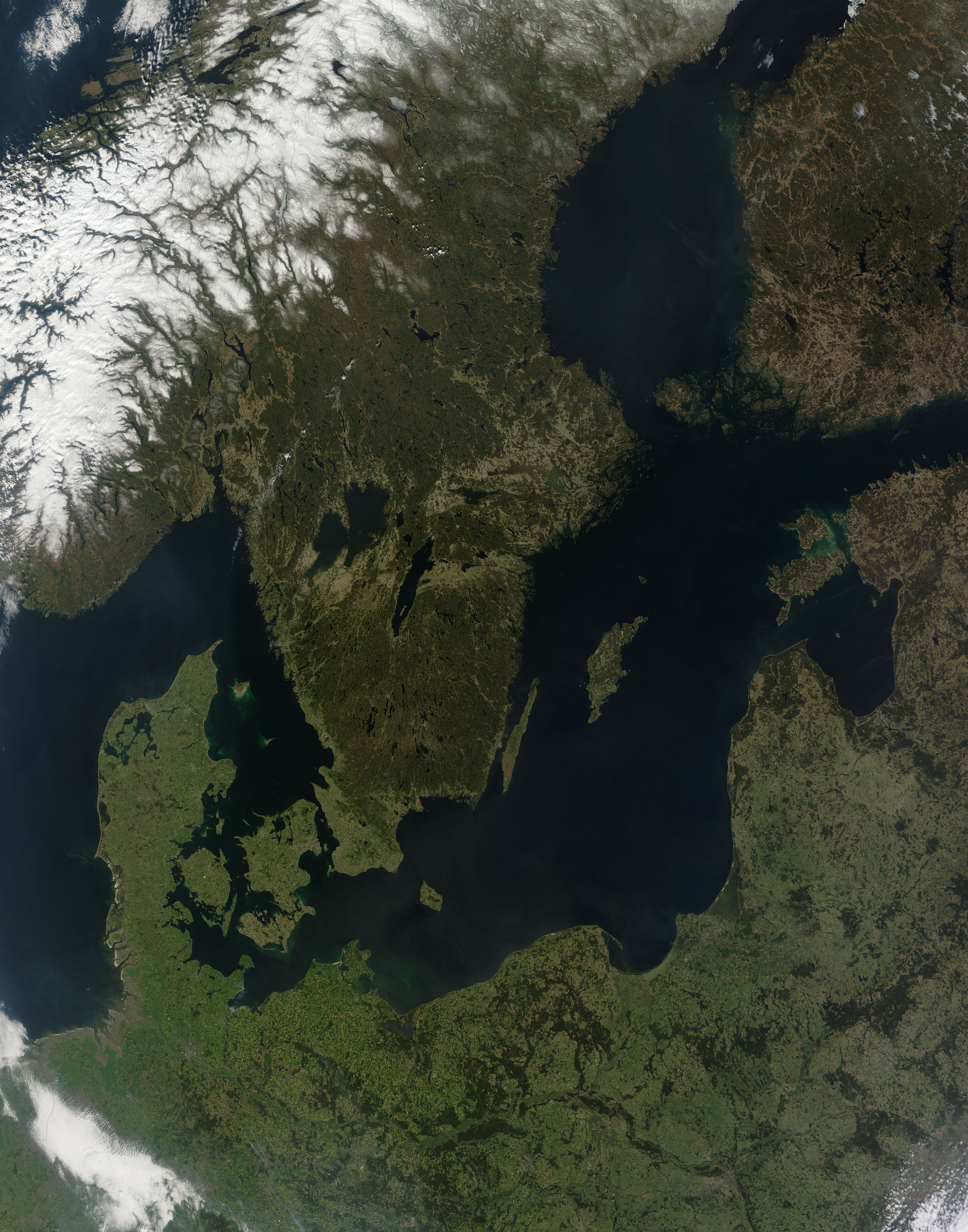 Shown is southern Scandinavia. Near the center of the image is Sweden. To the west is Norway, still covered in ice and snow. Denmark is the peninsula and islands who jut up between Norway and Sweden. The bodies of water that separate them from Denmark are the Skagerrak in the west and Kattegat to the east. South of Denmark is Germany Across the Gulf of Bothnia from Sweden is Finland, visible in the top right corner of the image. South of Finland is the Gulf of Finland, which separates it from Estonia. South of Estonia is Latvia, and south of Latvia is Lithuania. These countries are separated from Sweden by the Baltic Sea. The small country south of Lithuania on the Baltic Sea is part of Russia. To the south, between it and Germany, is Poland.